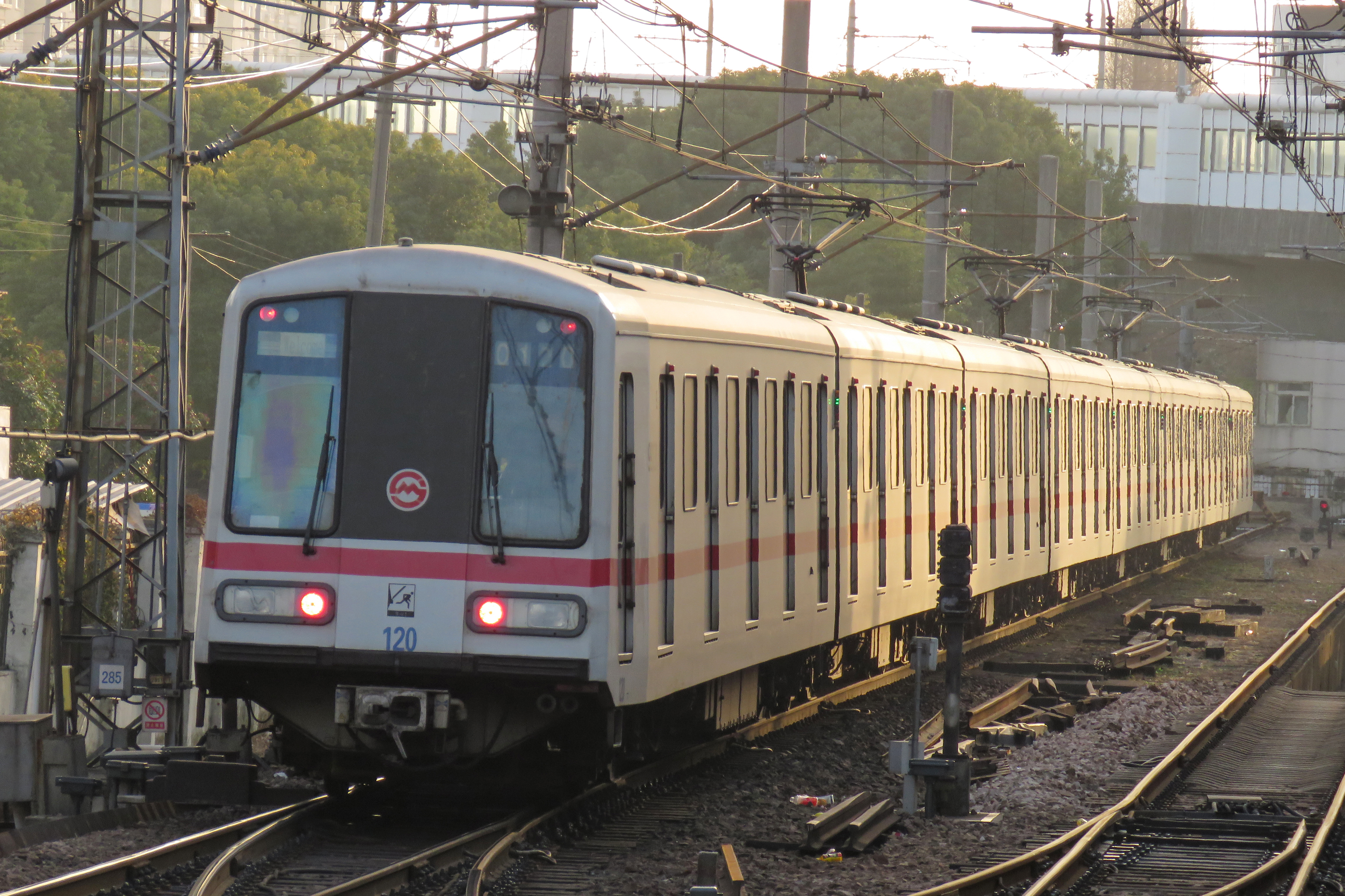 Ready for its return trip to Fujin Road.